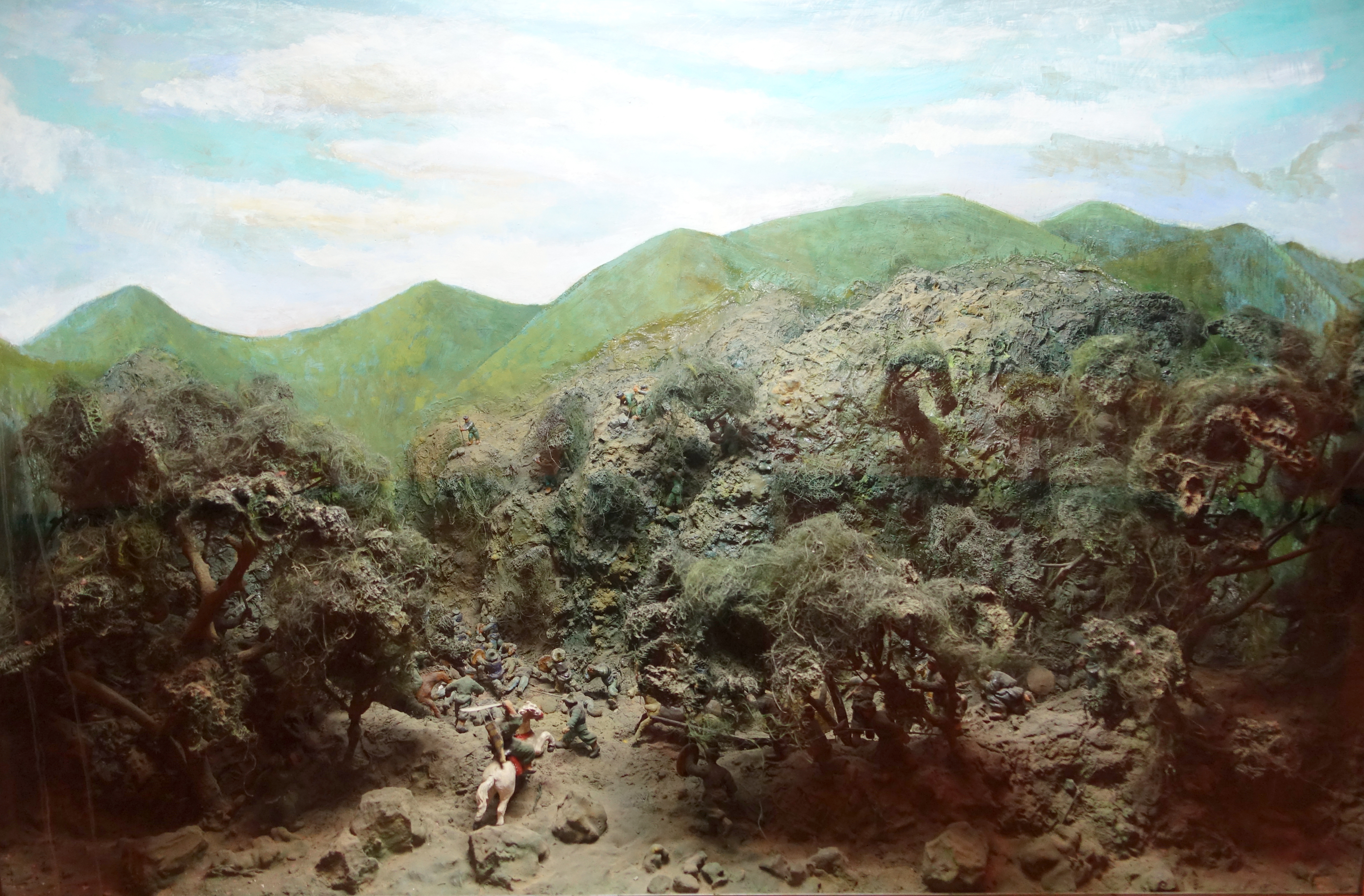 Exhibit in the National Museum of Vietnamese History, Hanoi, Vietnam. This artwork is old enough so that it is in the public domain.